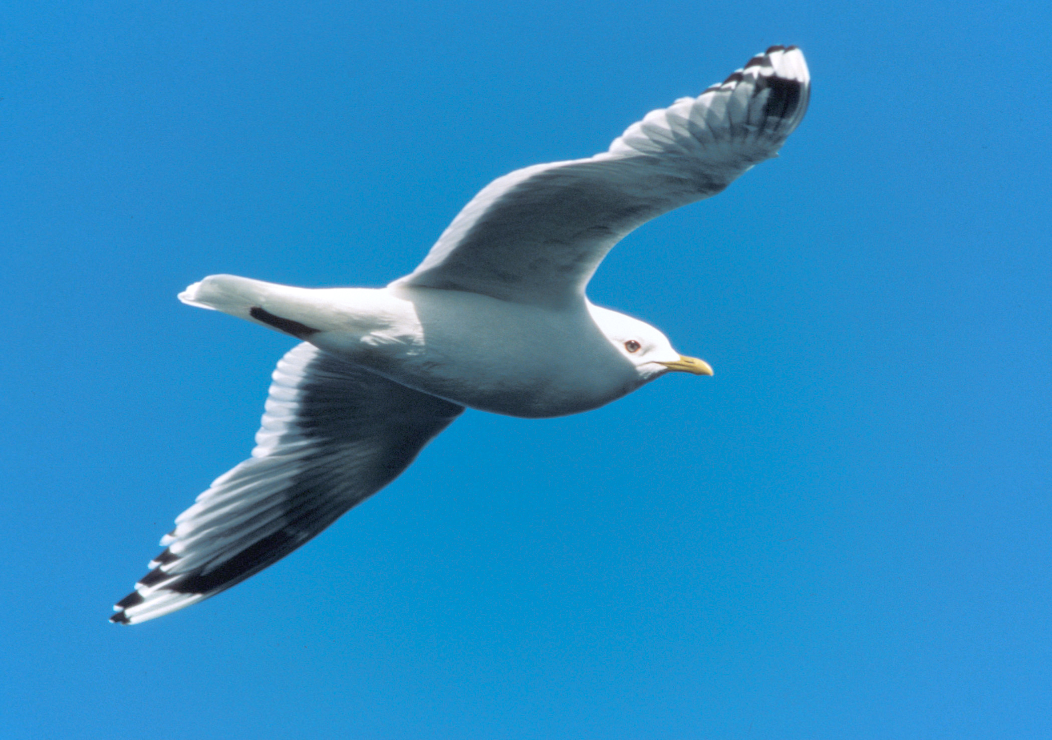 Mew Gull Larus canus brachyrhynchus in flight over Frazer Lake, Kodiak NWR, Alaska.